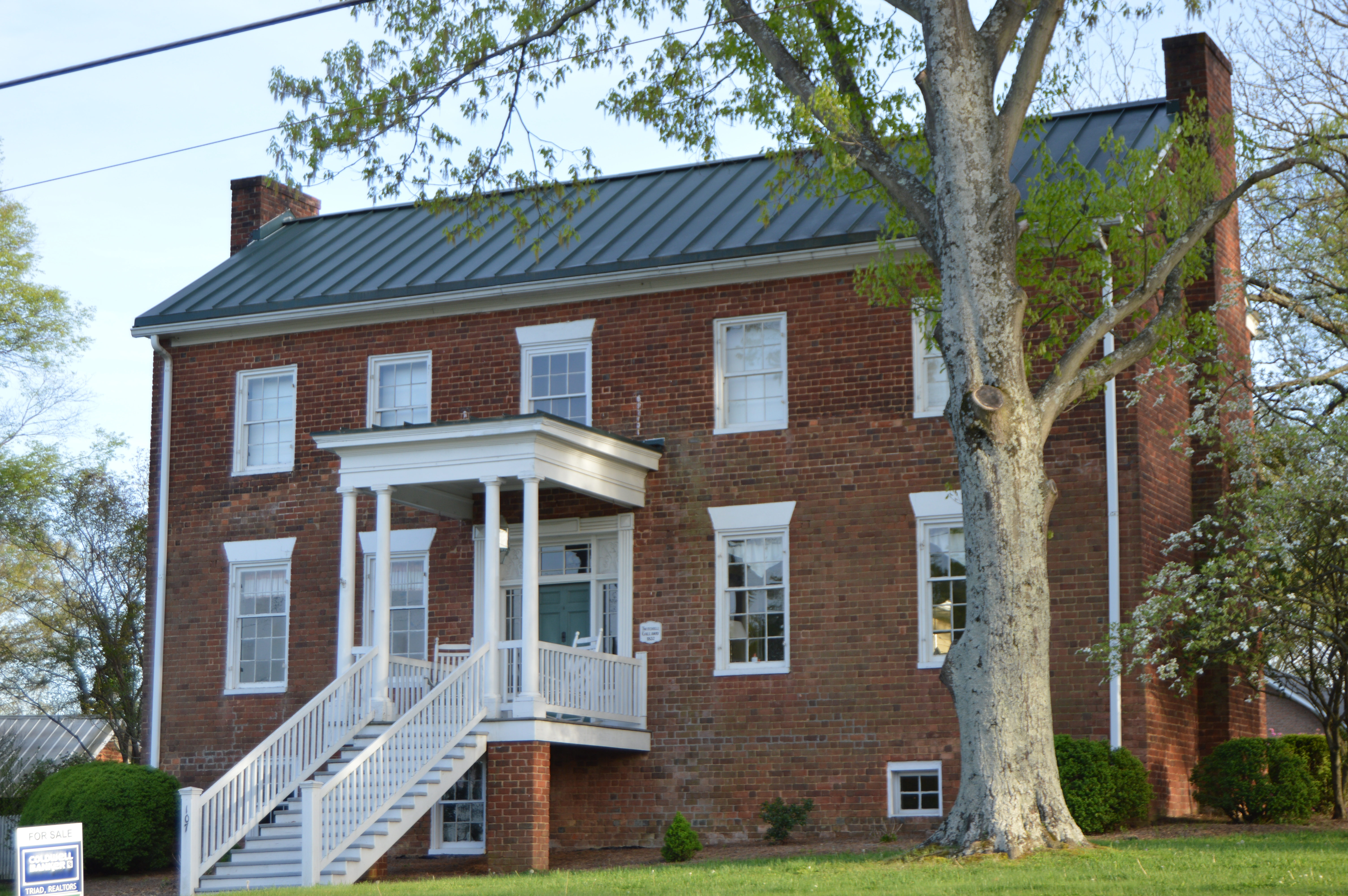 Front of a house in the 100 block of W. Academy Street in Madison, North Carolina, United States. Built in 1832, it is part of the Academy Street Historic District, a historic district that is listed on the National Register of Historic Places.